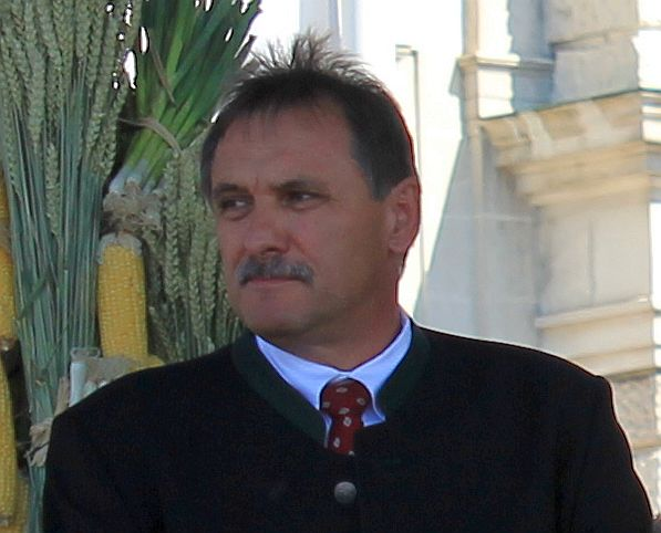 The Austrian politician Franz Windisch in 2012